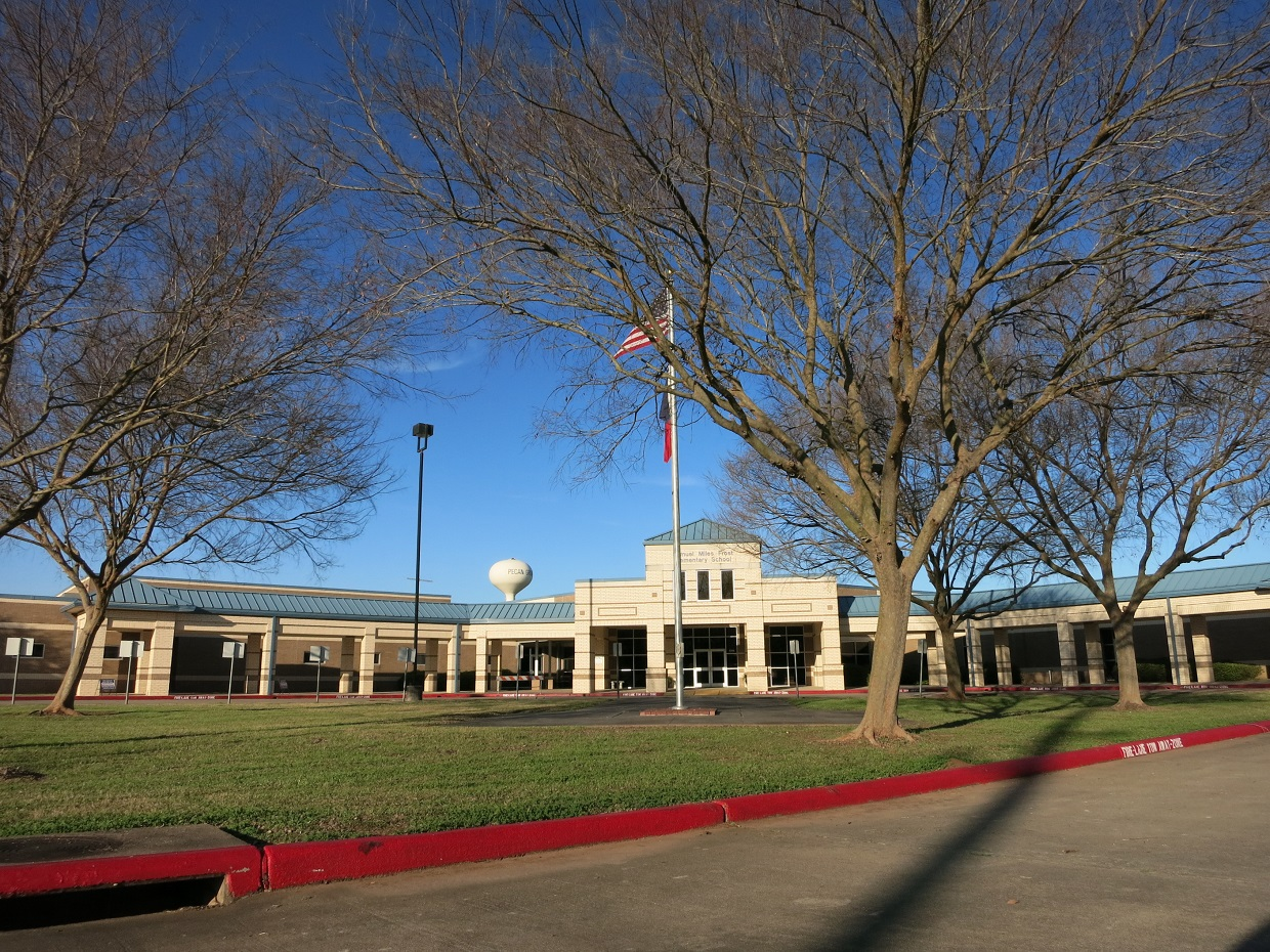 Photo shows the Samuel Miles Frost Elementary School at 3306 Skinner Lane, Richmond, TX 77406. It is part of the Lamar Consolidated Independent School District.